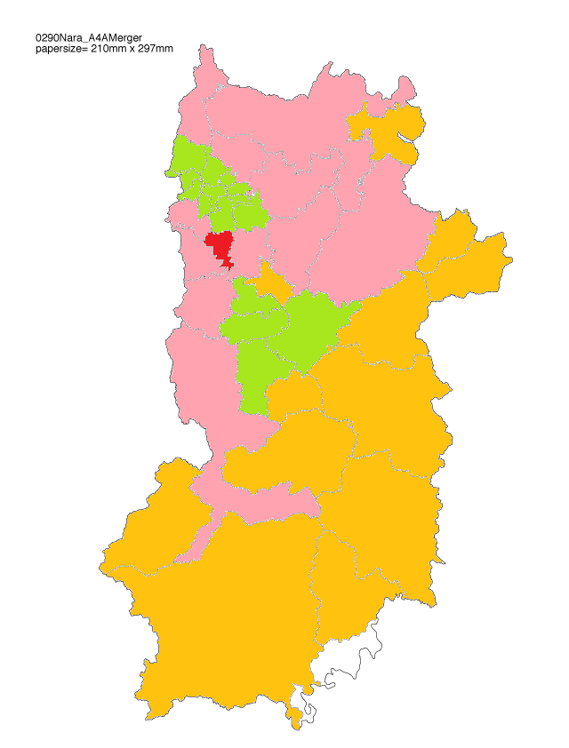 Yamatotakada City Map. ■Yamatotakada City ■Other City ■Town ■Village